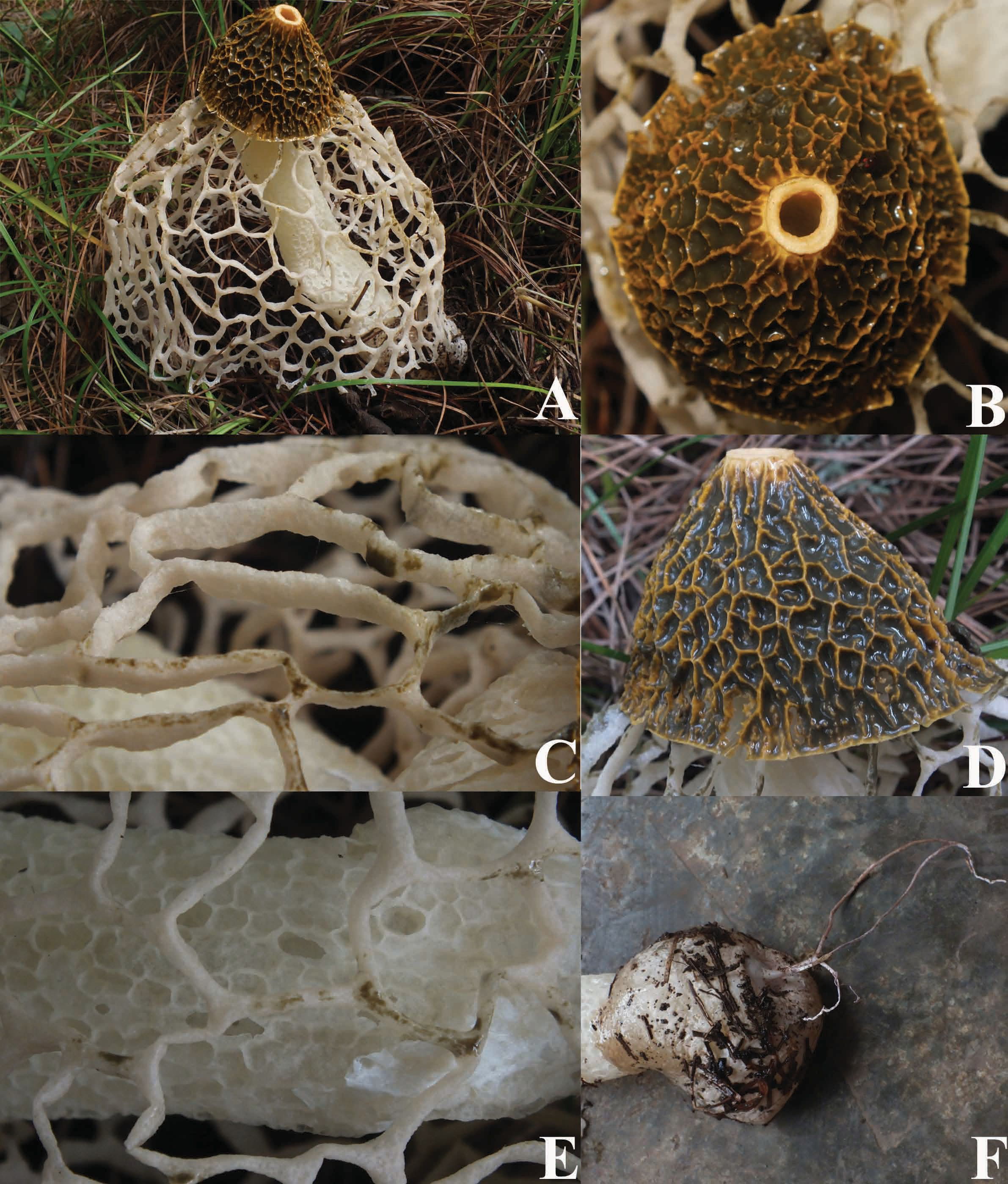 A: Mature fruiting body of P. haitangensis, B: Hole at the apex of the receptacle; C: Indusium; D: Receptacle; E: Pseudostipe; F: Volva and rhizomorph.